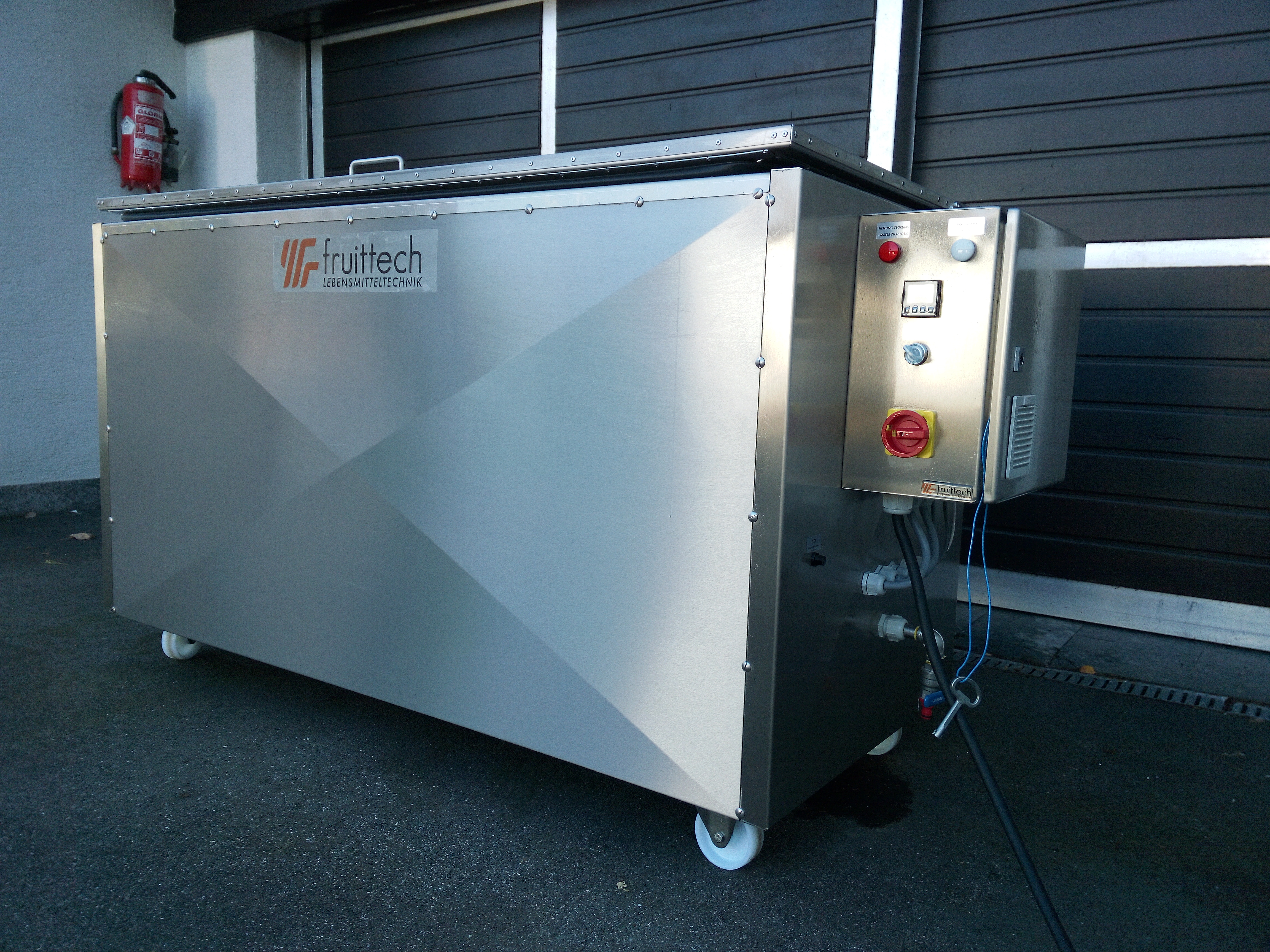 Bath pasteurizer